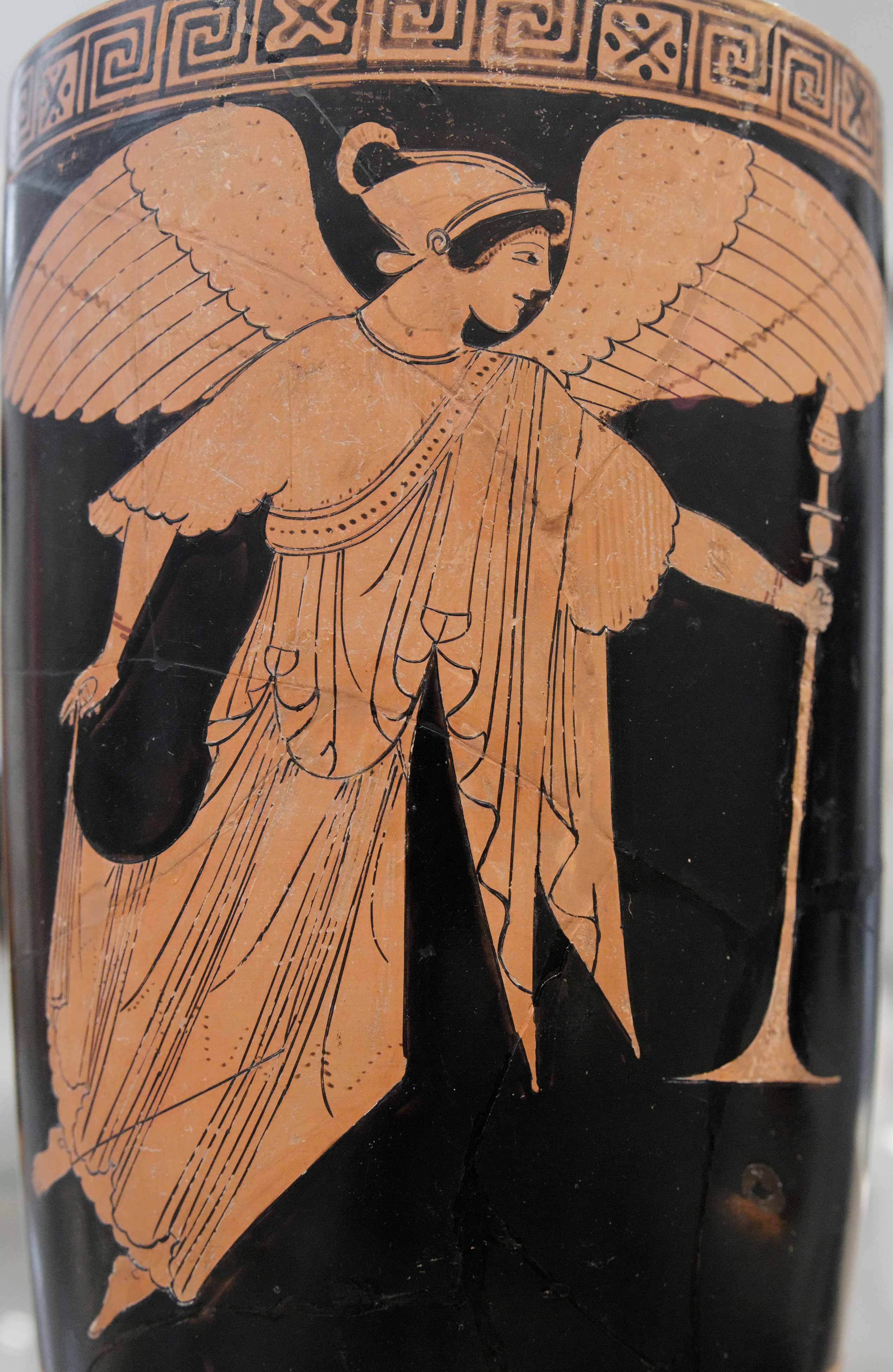 Winged Nike carrying a thymiaterion, Attic red-figure lekythos.